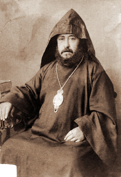 Garegin Srvandztiants (Armenian: Գարեգին Սրվանձտեանց or Սրվանձտեան Srvandztian; November 17, 1840 – November 17, 1892) was an Armenian philologist, folklorist, ethnographer, and priest.